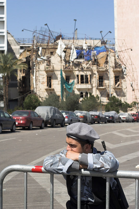 This Ministry of the Interior soldier was guarding the site of the attack that killed former Prime Minister Hariri and started turmoil in Lebanon.